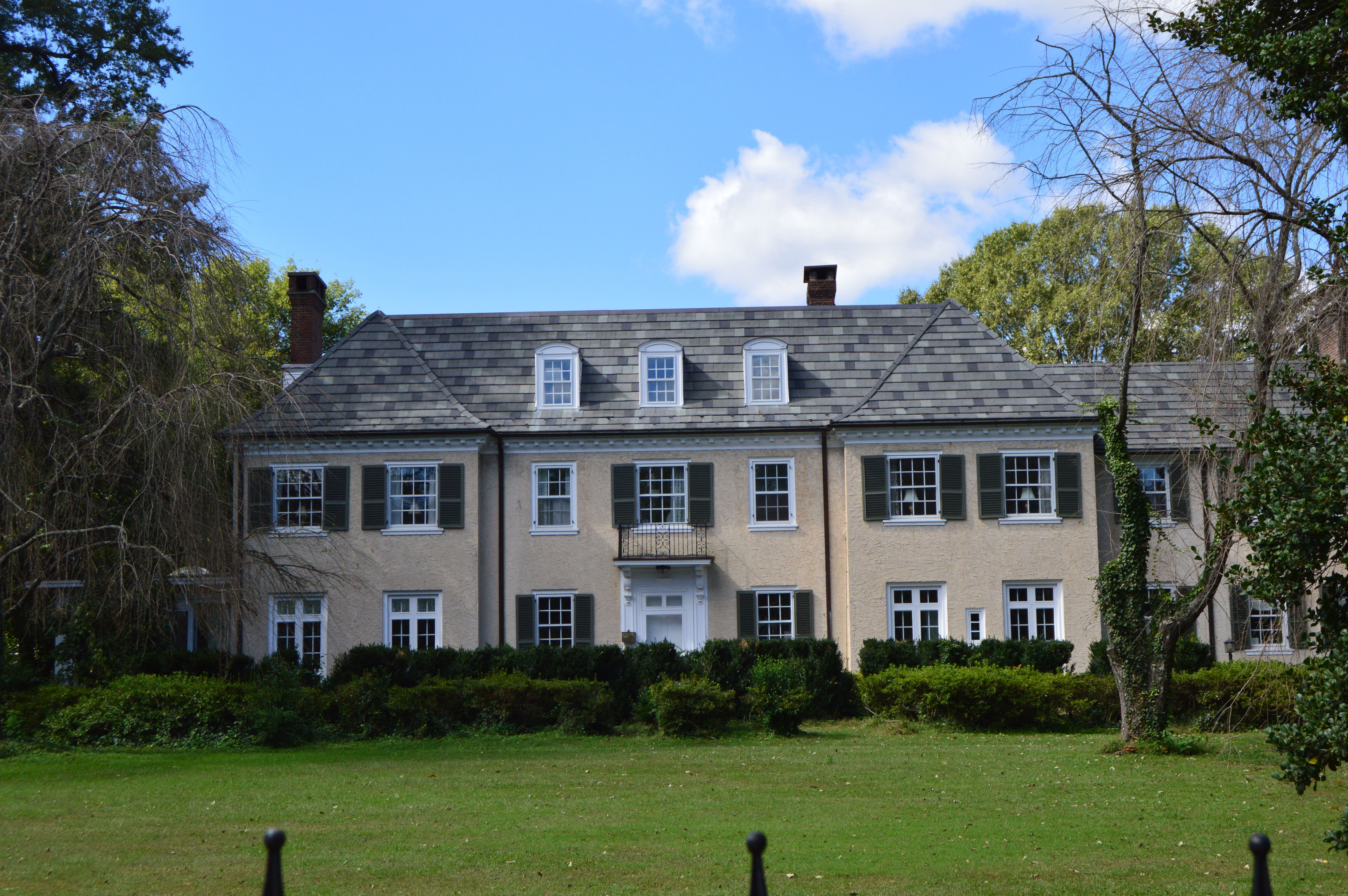 Front of the Thurmond and Lucy Chatham House, located at 112 N. Stratford Street in Winston-Salem, North Carolina, United States. Built in 1925, it is listed on the National Register of Historic Places.